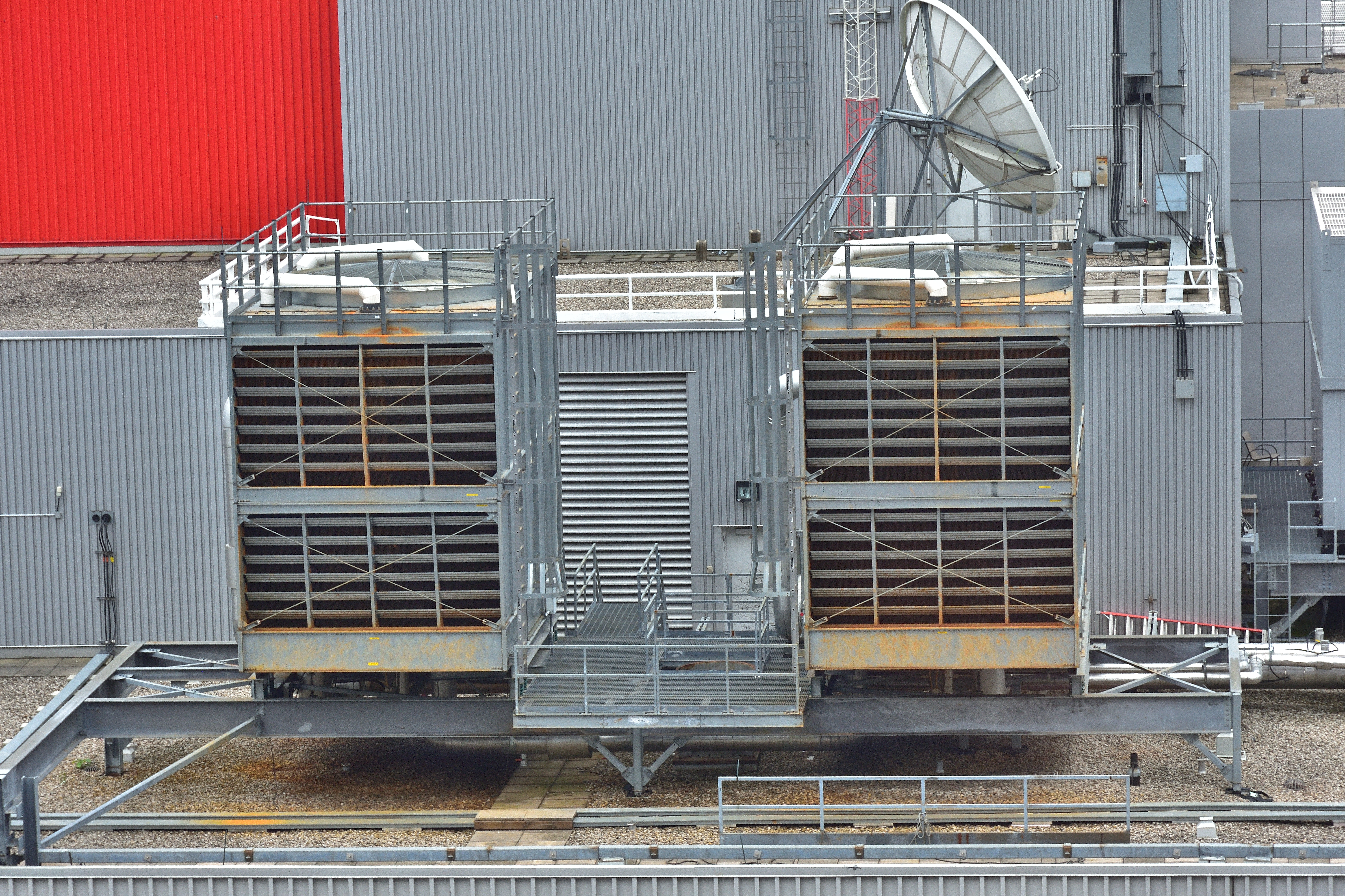 A typical evaporative, open-loop cooling tower rejecting heat from the condenser water loop of an industrial chiller unit.